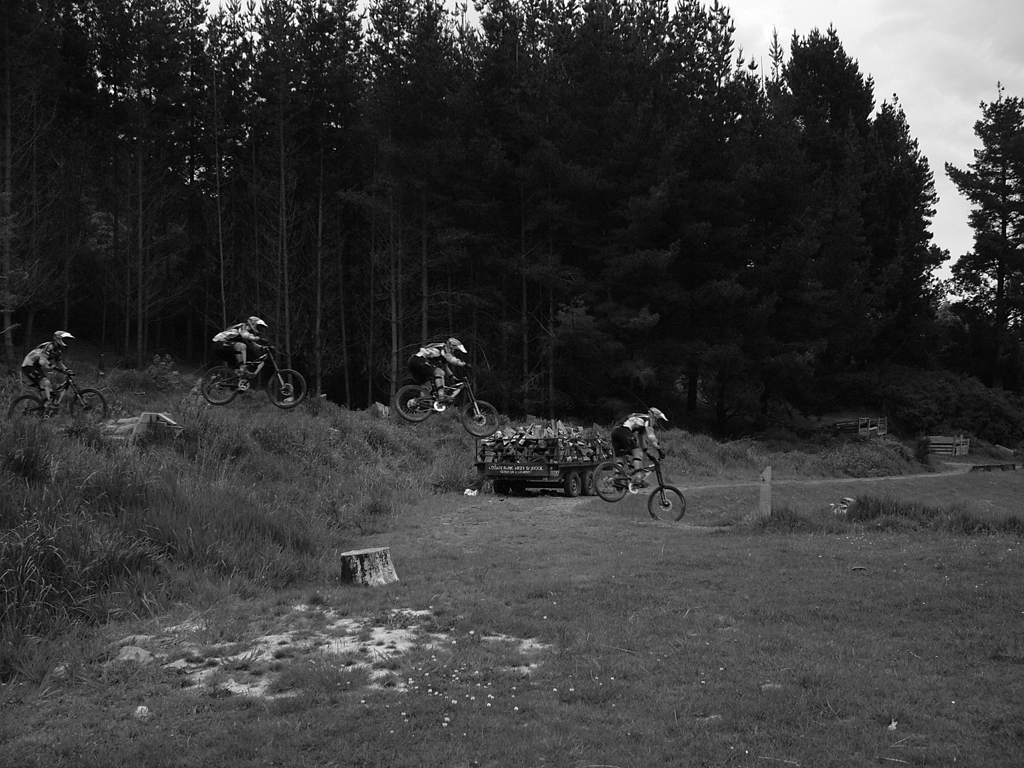 The last jump at the Signal Hill track near Dunedin, New Zealand.